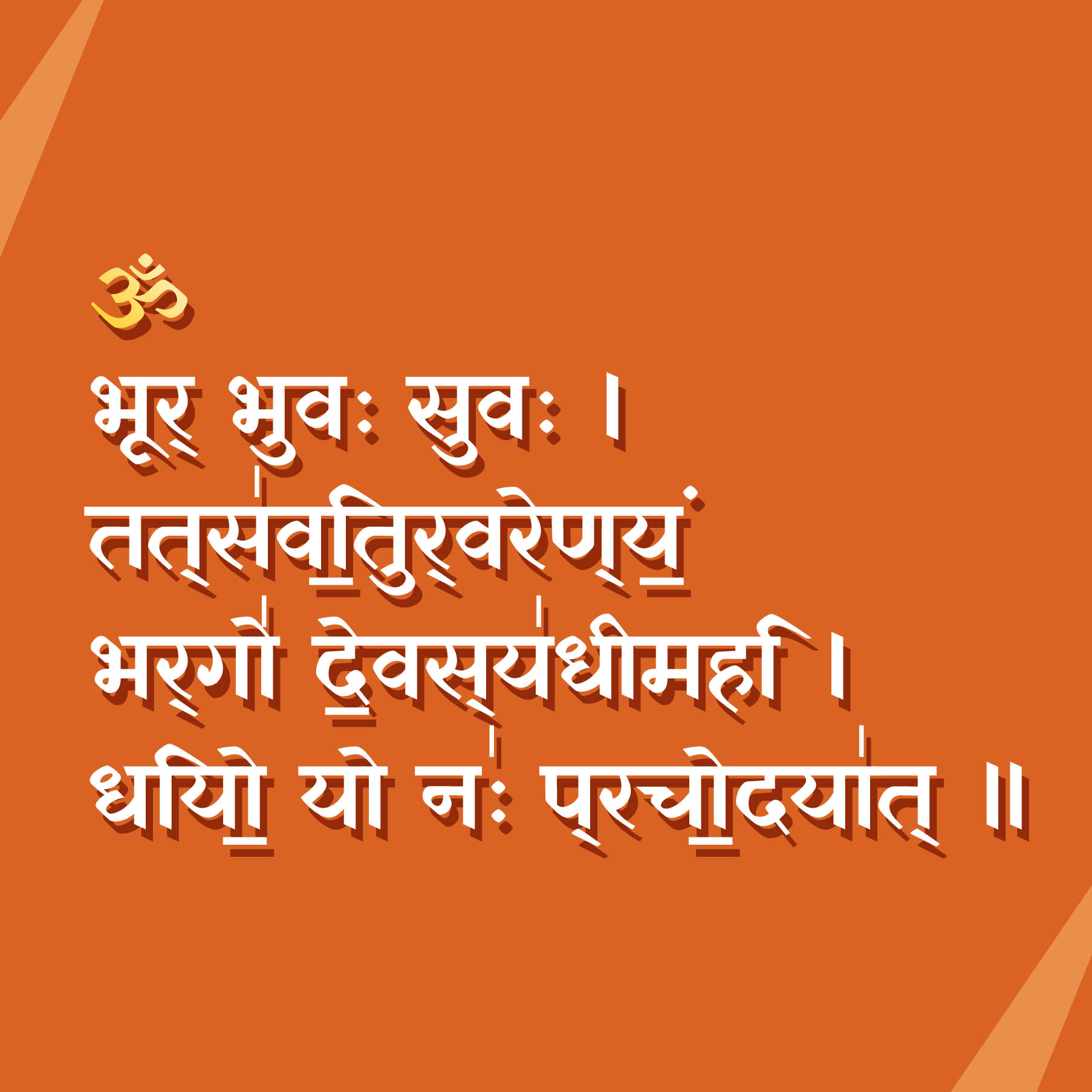 Gayatri Mantra, written in Devanagari script